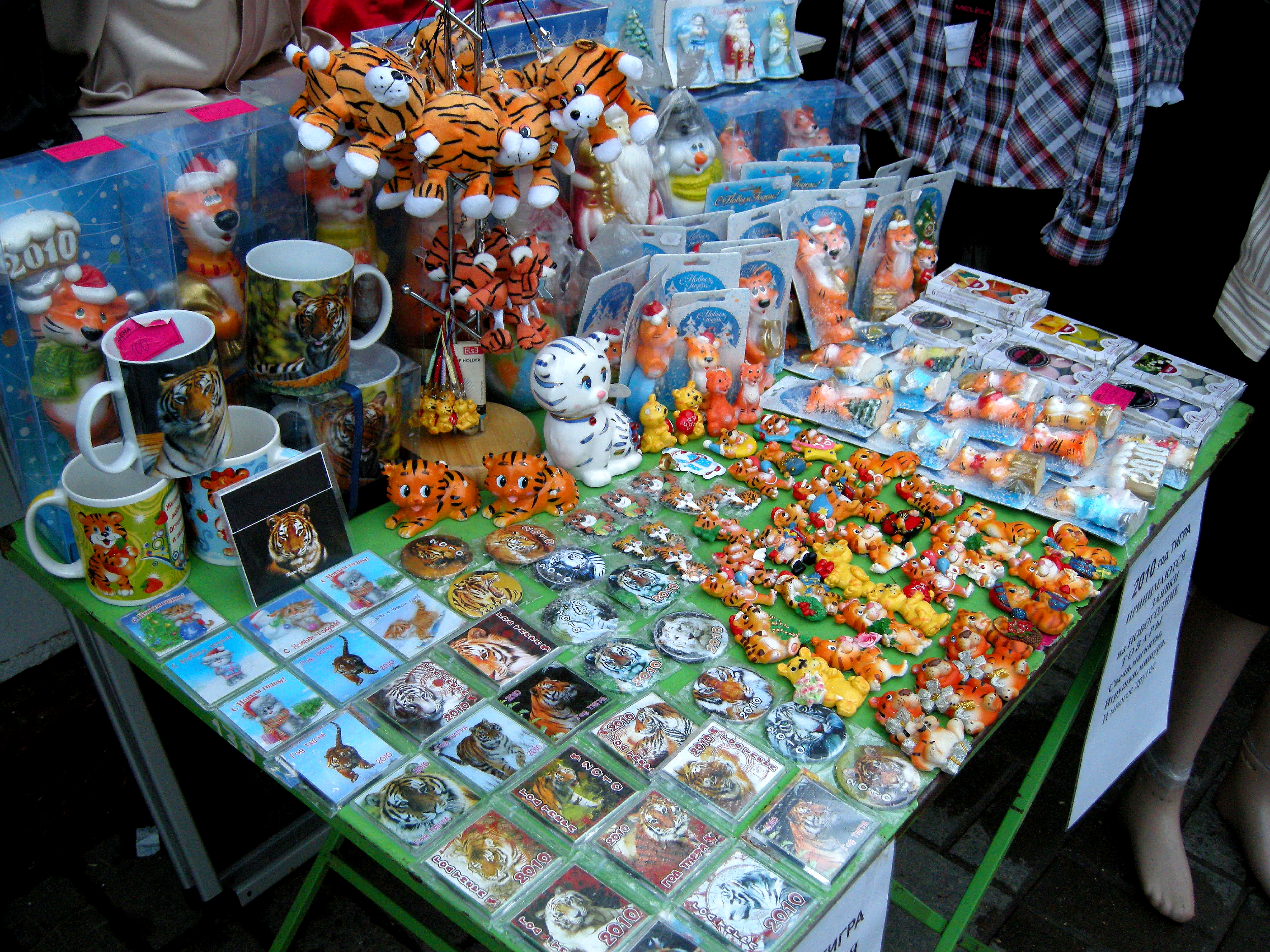 Earthly Branch Goods in Russia